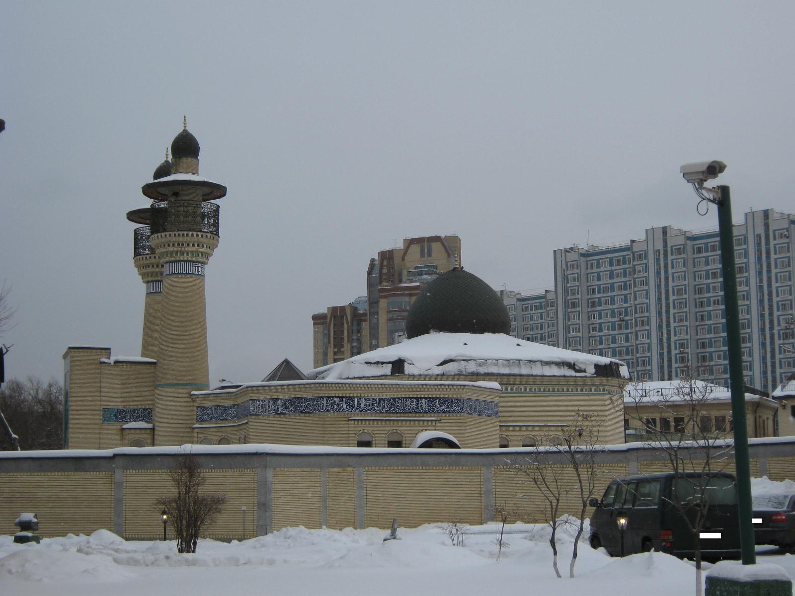 Iran mosque in Moscow